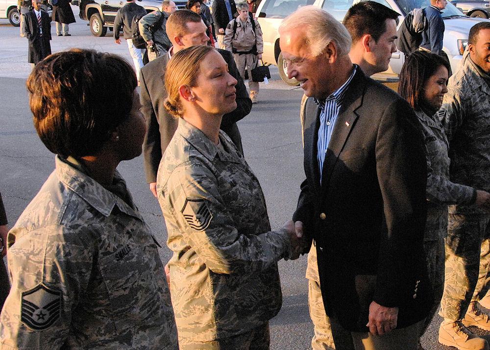 Airmen from the 387th Air Expeditionary Group greet Vice President-elect Joe Biden as he boards an aircraft headed to Iraq Jan. 12. Vice President-elect Biden is headed into Iraq as part of his trip to the region.